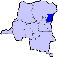 Locator map showing a province of the Democratic Republic of the Congo